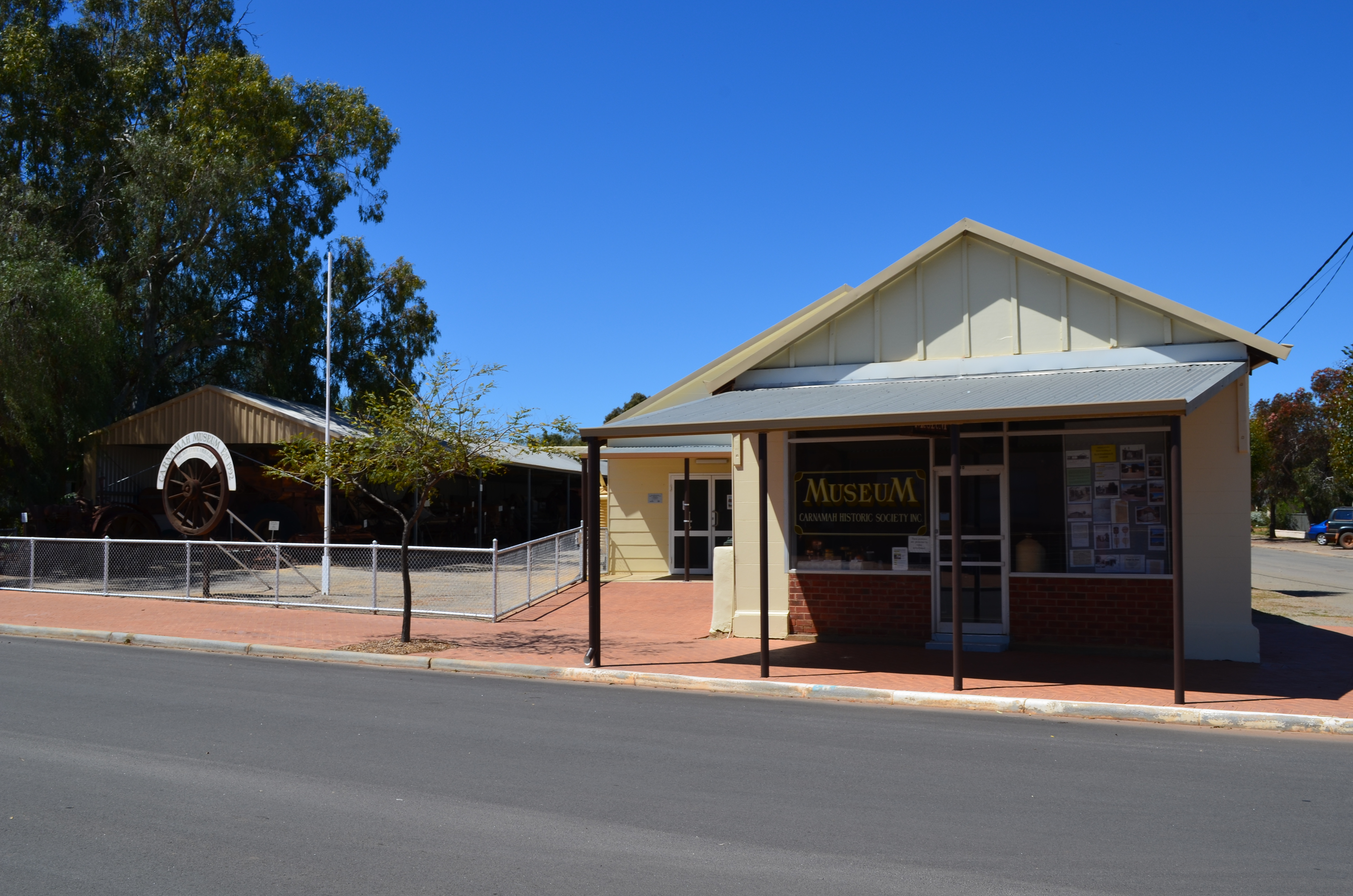 A view of the Carnamah Museum, 10 Macpherson Street, Carnamah, Western Australia. The Museum is owned by the Carnamah Historical Society.